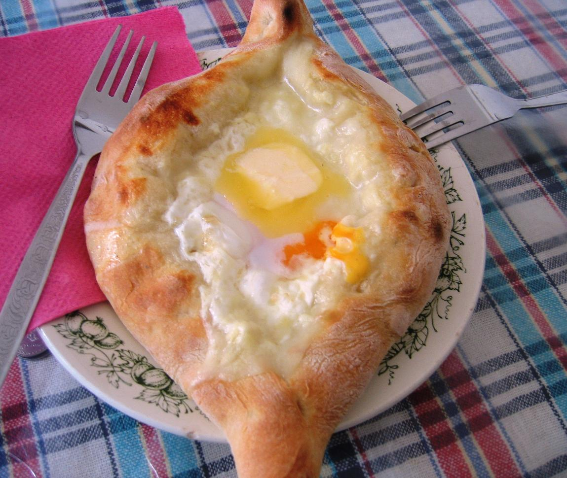 Adjaruli Khachapuri, a georgian bread filled with cheese and eggs